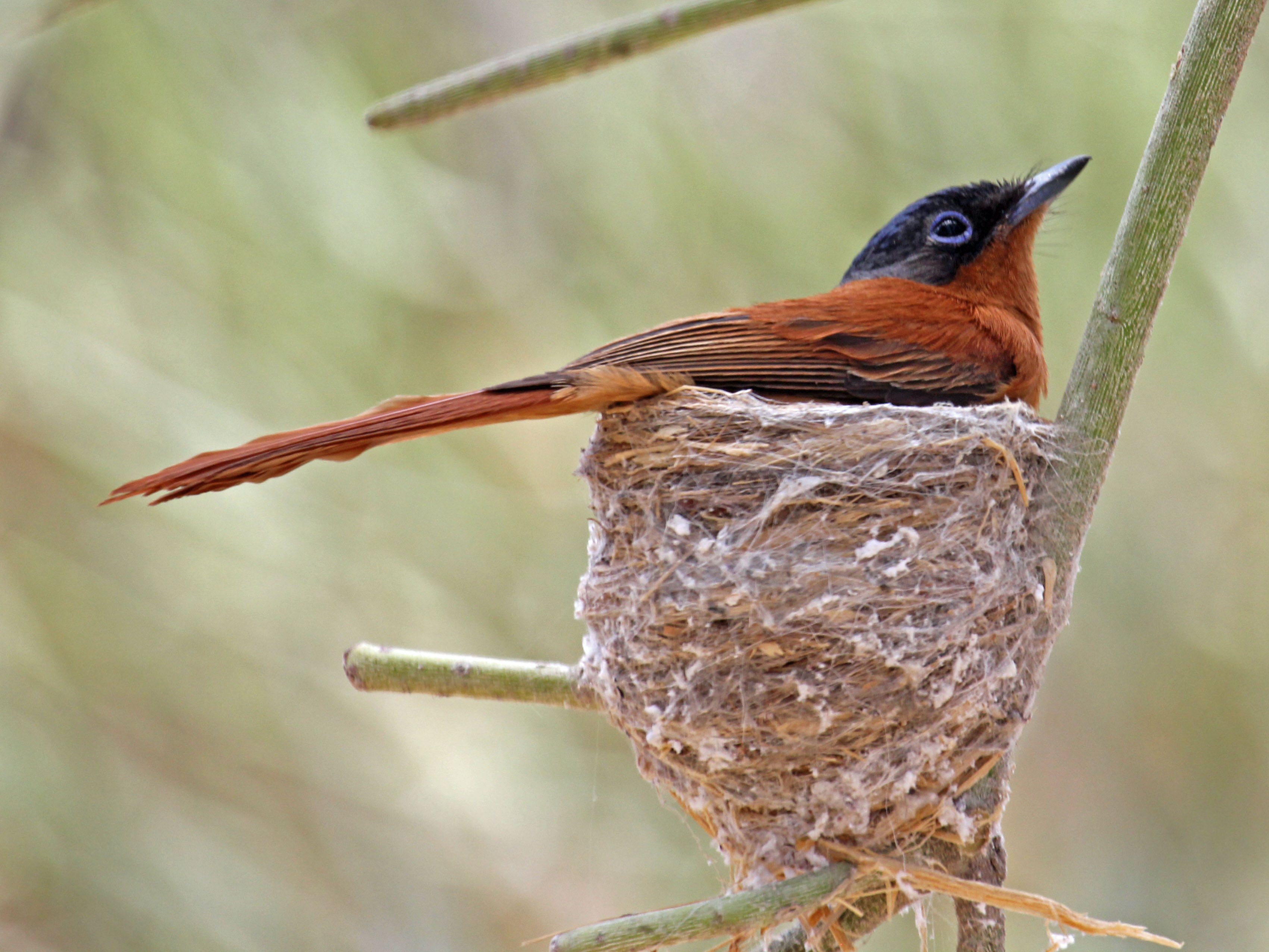 Female Madagascar Paradise-Flycatcher (Terpsiphone mutata) - Arboretum near Tulear, Madagascar.